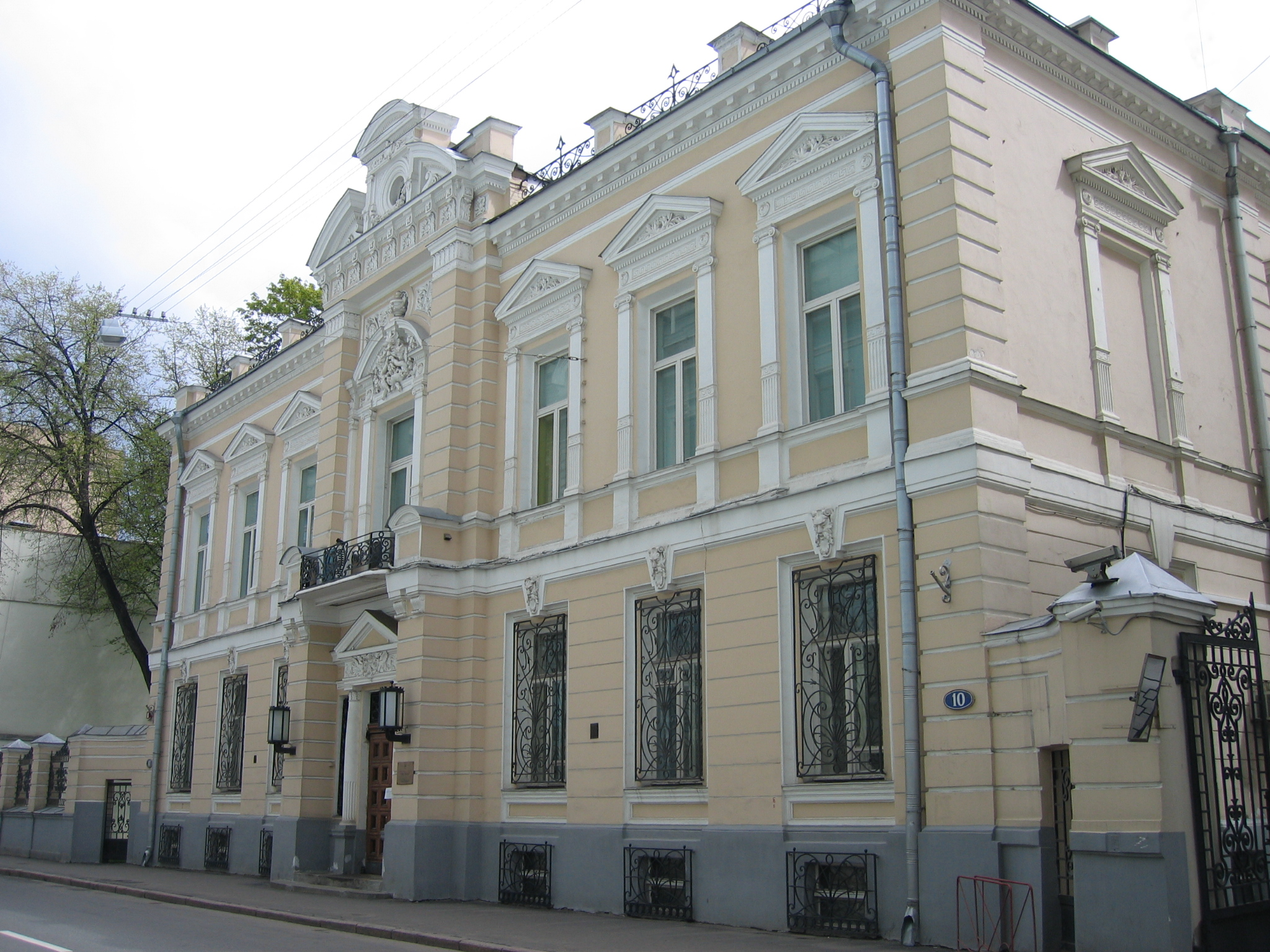 Sistema Group head office, Moscow